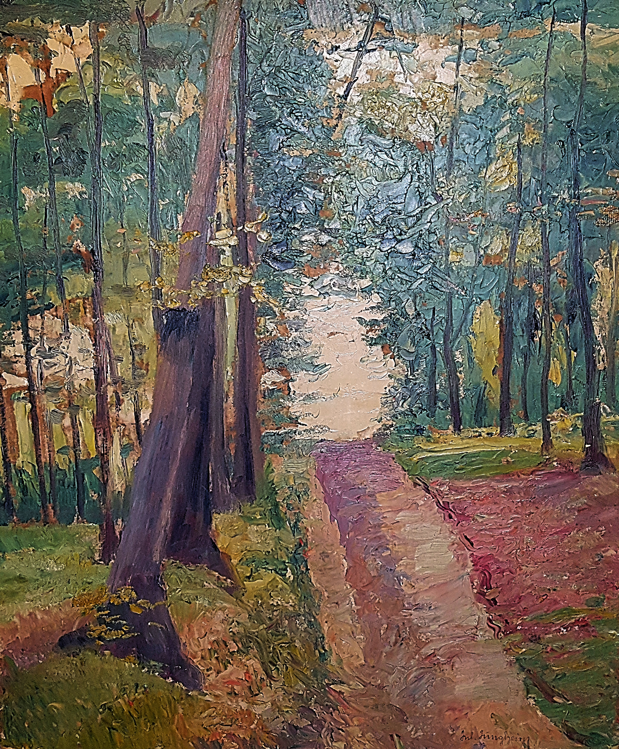 Oil Painting, Julius Jungheim